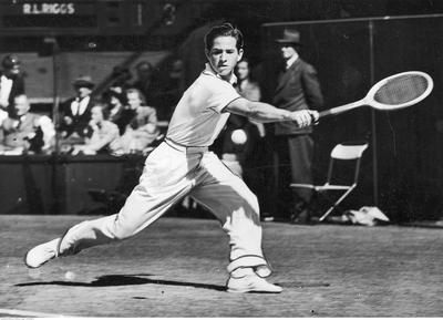 American tennis player Bobby Riggs at 1939 Wimbledon Championships